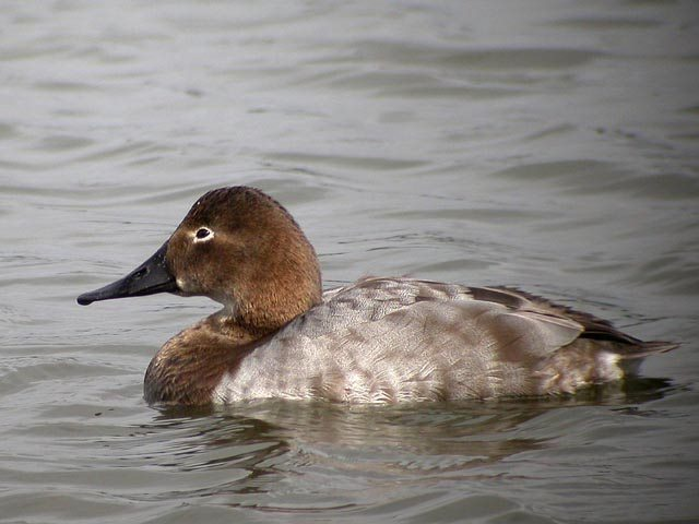 Canvasback female, Aquatic Park, Berkeley, California